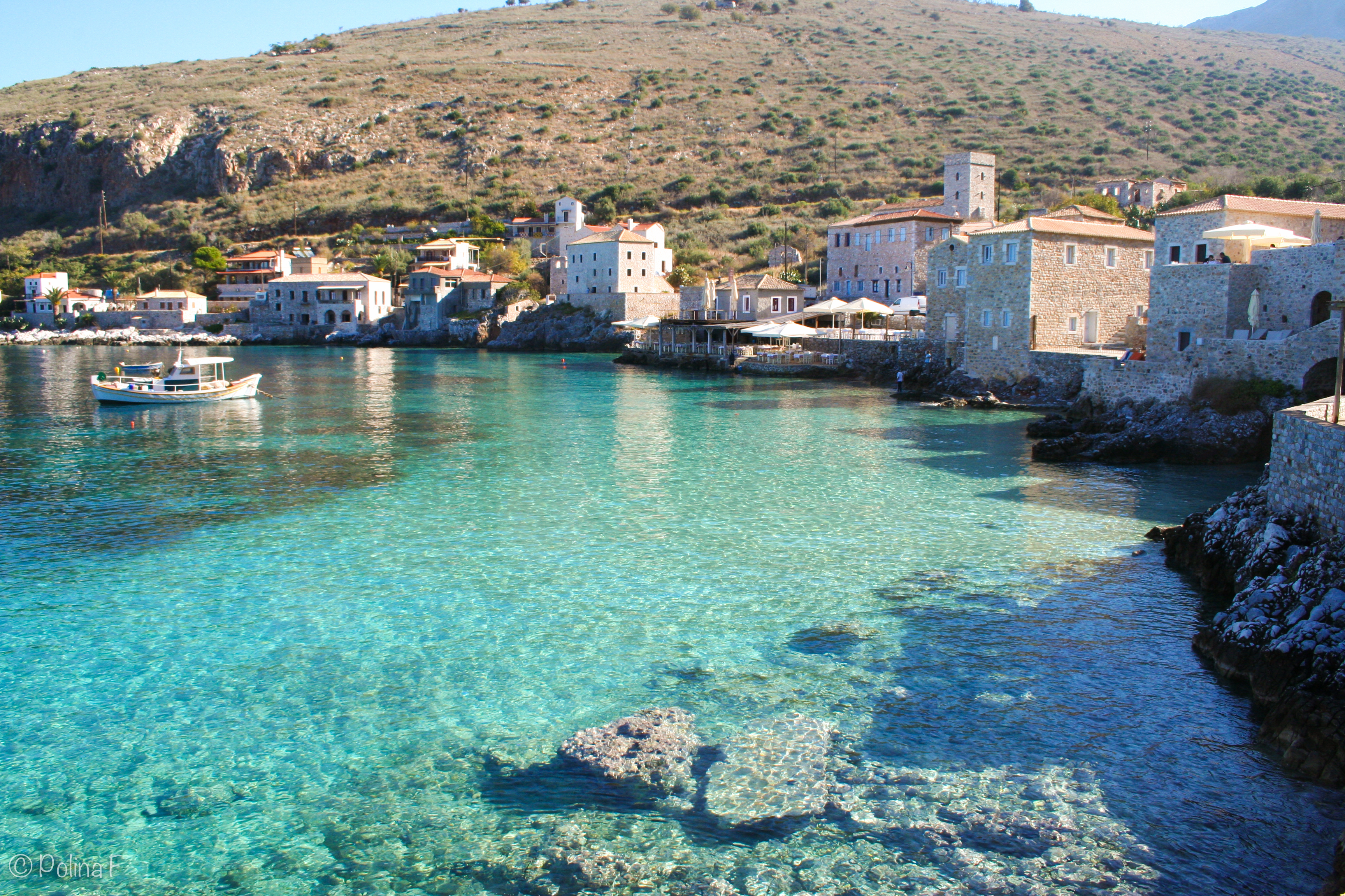 Limeni Areopolis